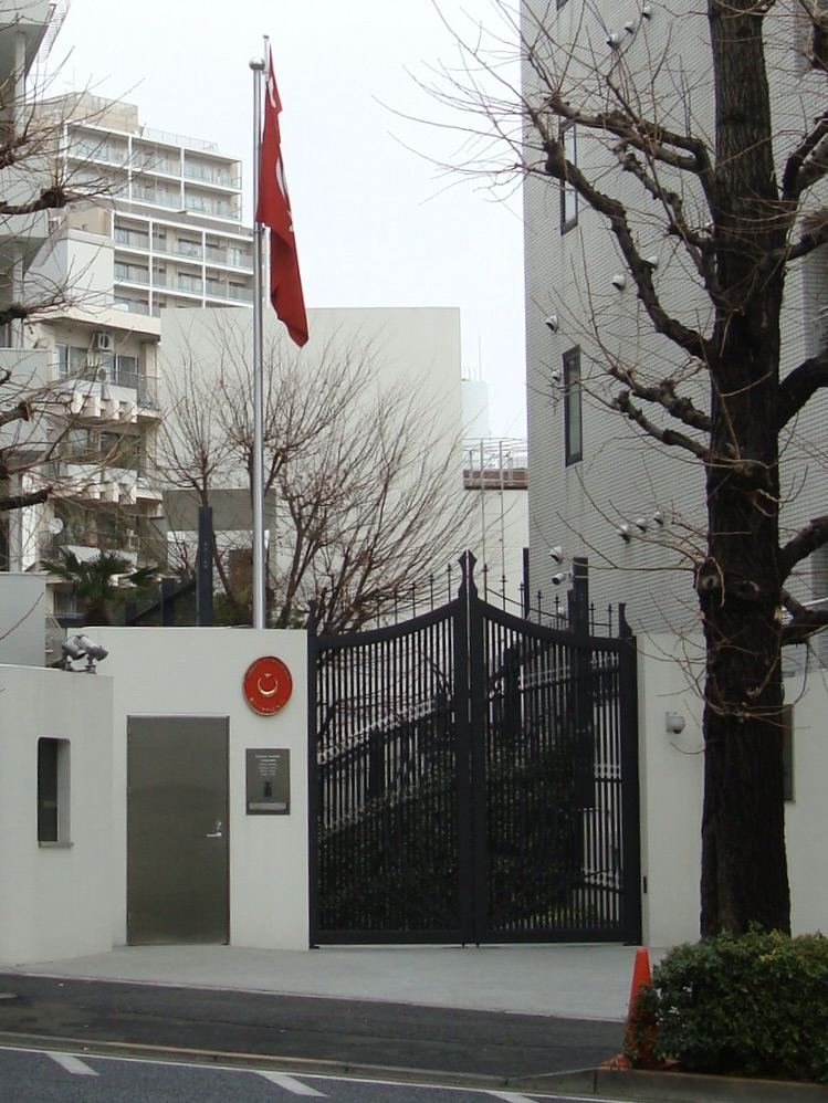 Embassy of Turkey in Japan. Harajuku, Tokyo